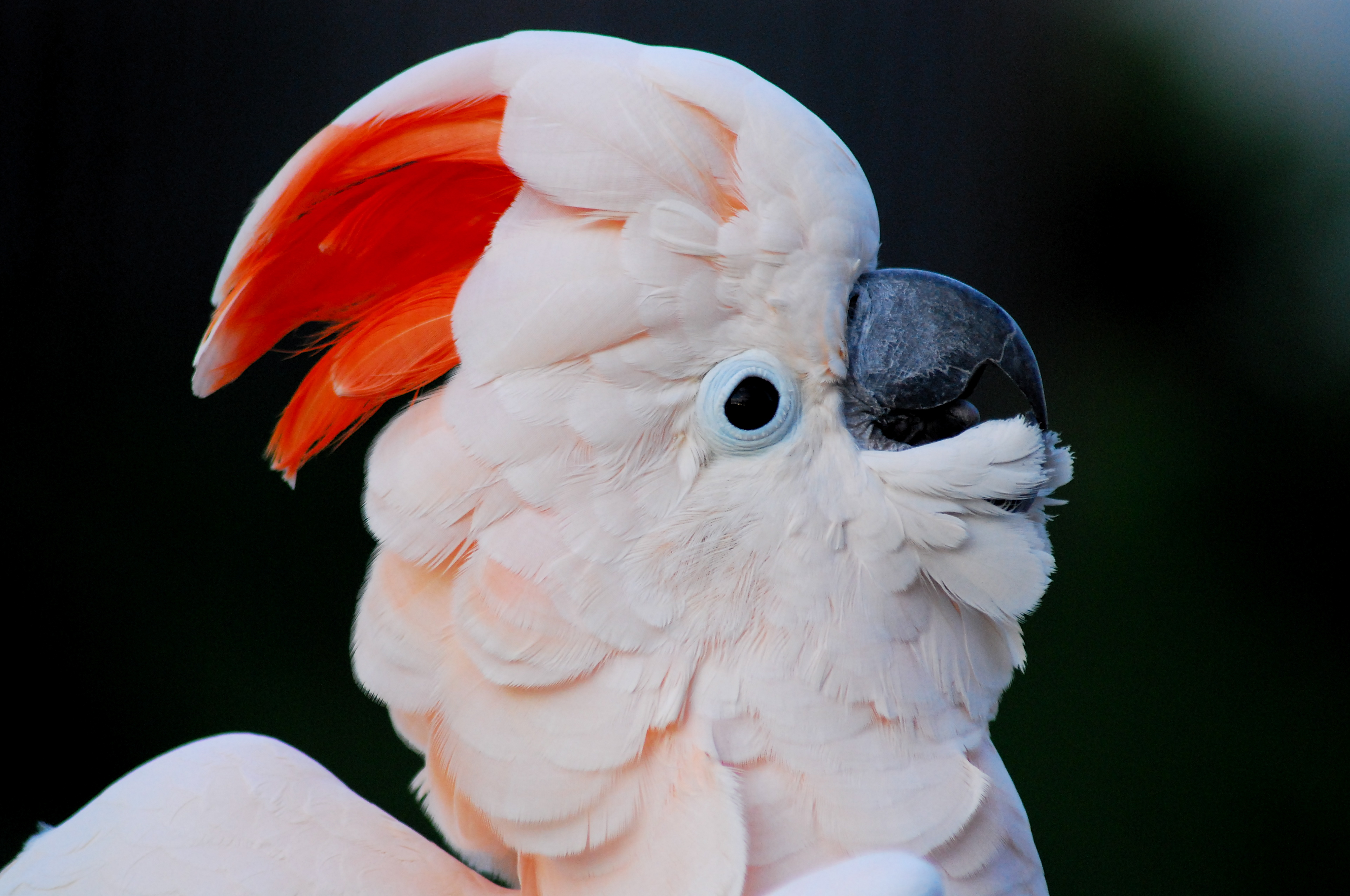 Cacatua moluccensis - Native to the Moluccas and Ceram Islands in Indonesia